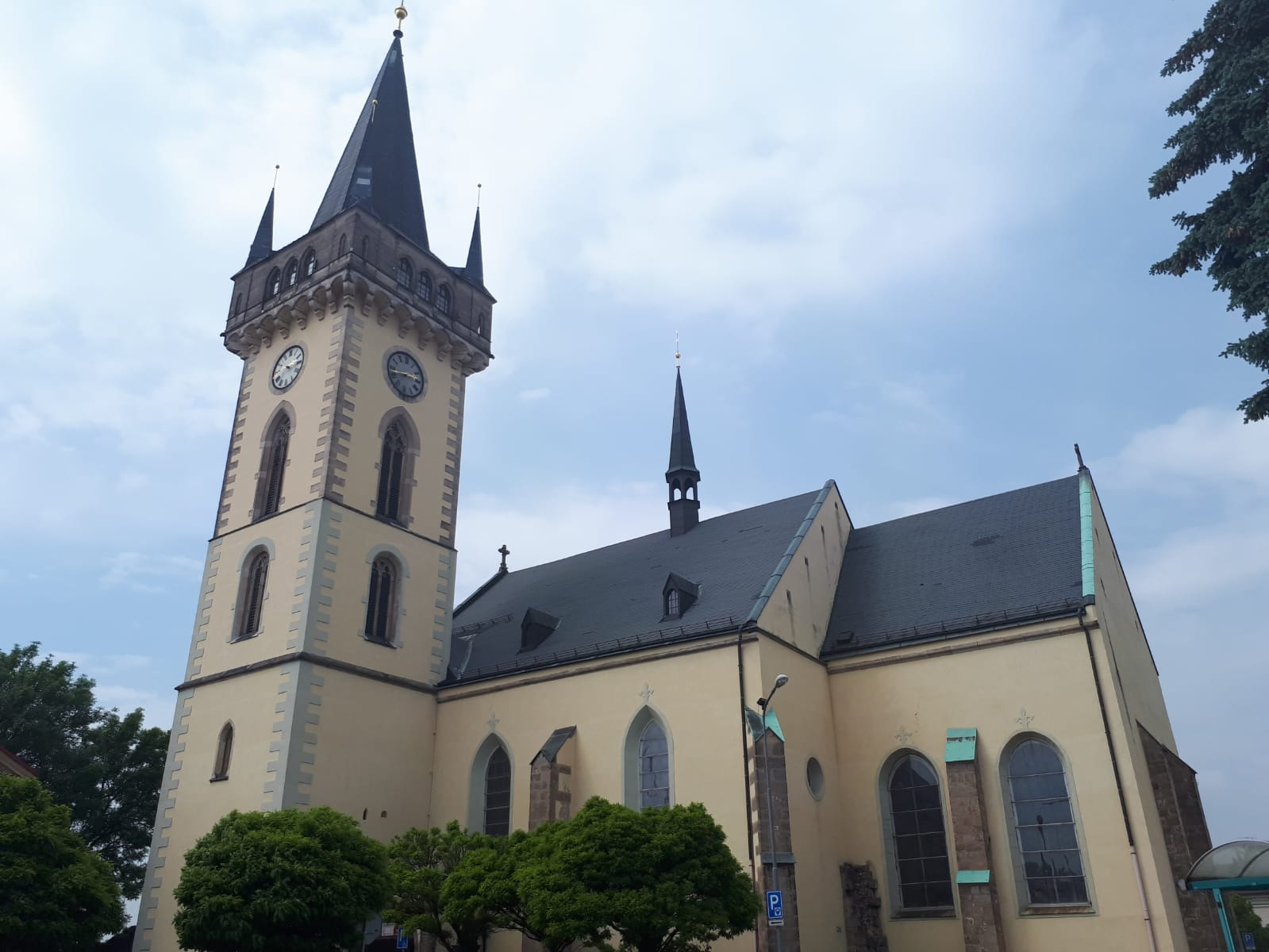 exterior